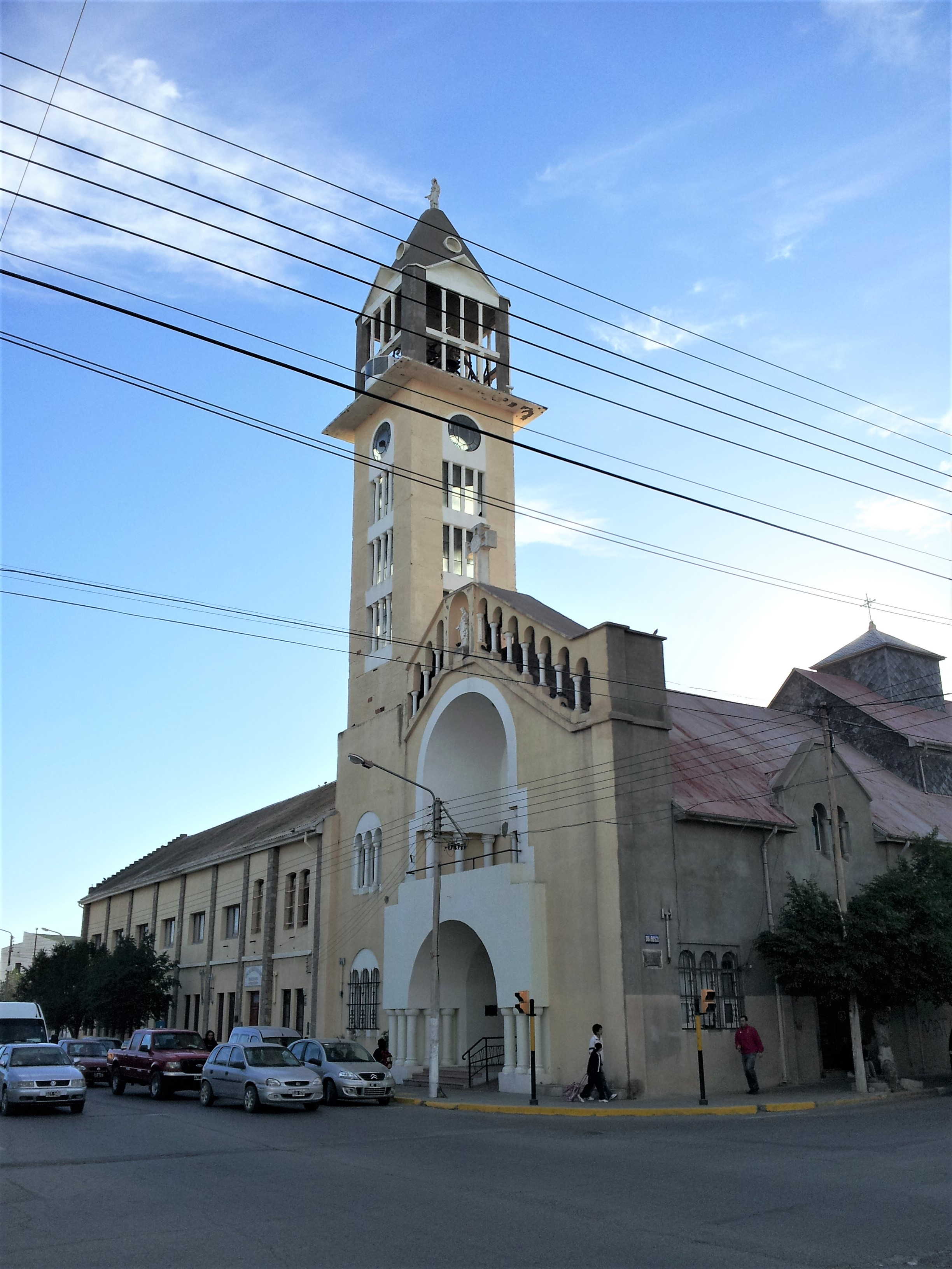 View of the churchs tower where Beauvoir lighthouse is settled (Puerto Deseado)